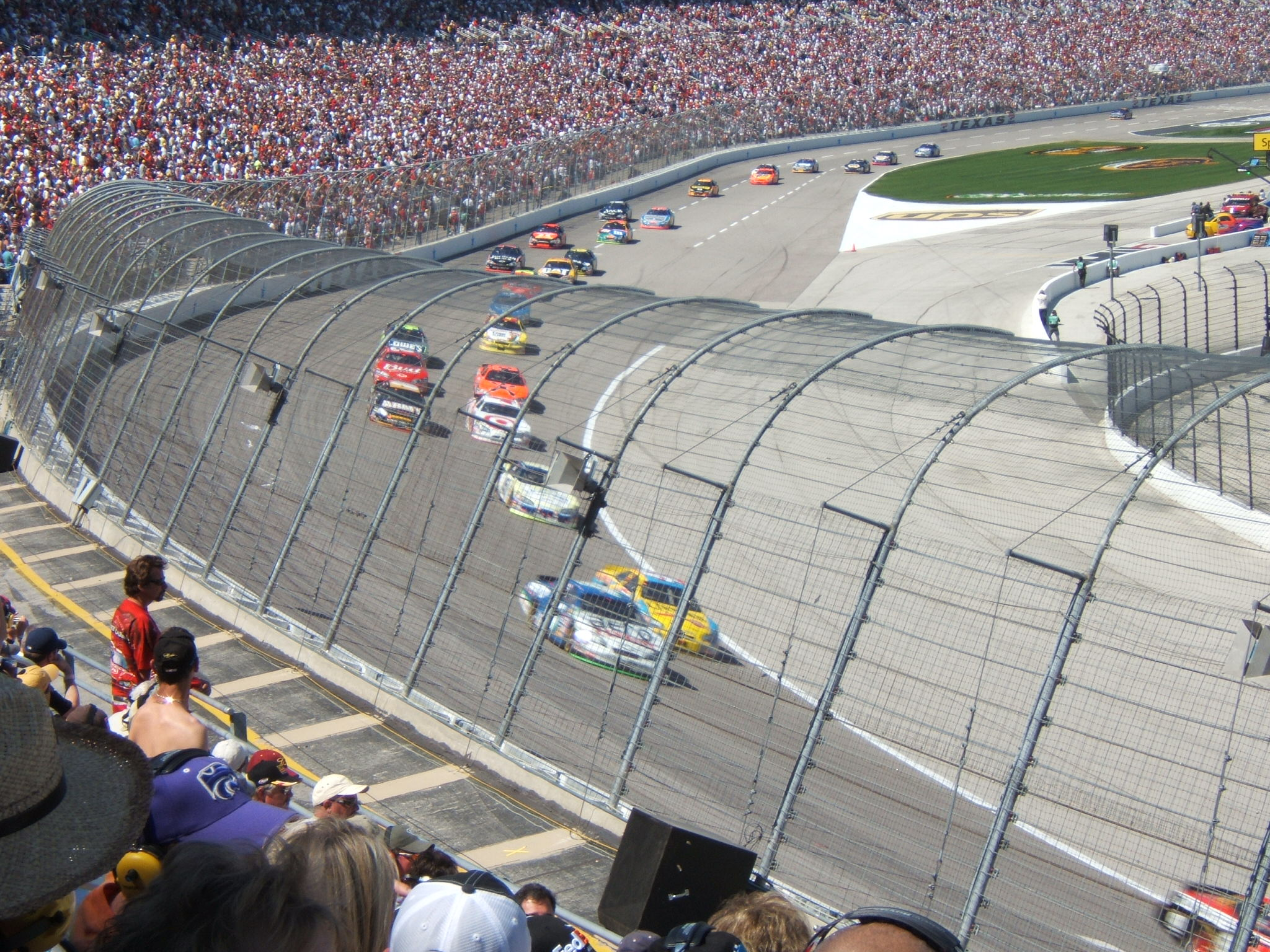 nascar Steeplechase racing